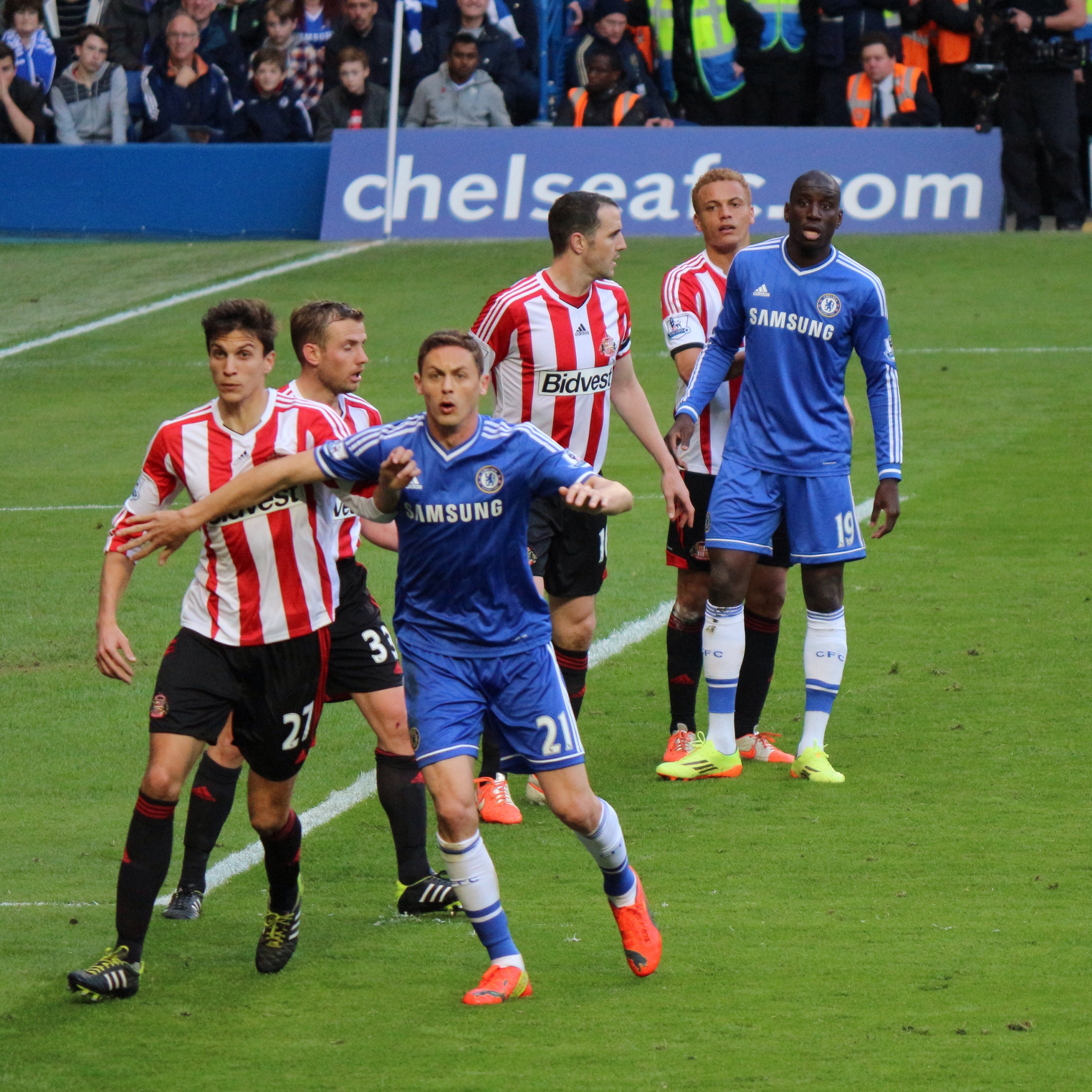 A bad day at the office, where a combination of questionable refereeing decisions and our inability to convert countless chances.